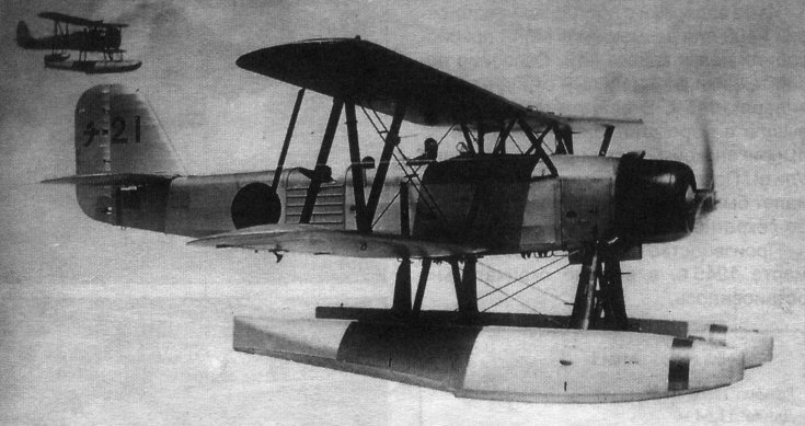 Kawanishi E7K2 three-seat floatplane with Nakajima E8N in background